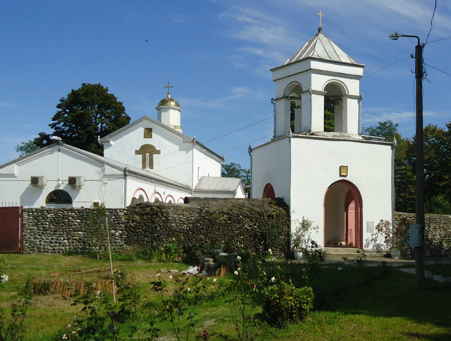 The Church of St. George of Ilori (The Ilori Church) is a Medieval, originally Georgian Orthodox Church in the village of Ilori, in the Ochamchira District of Abkhazia